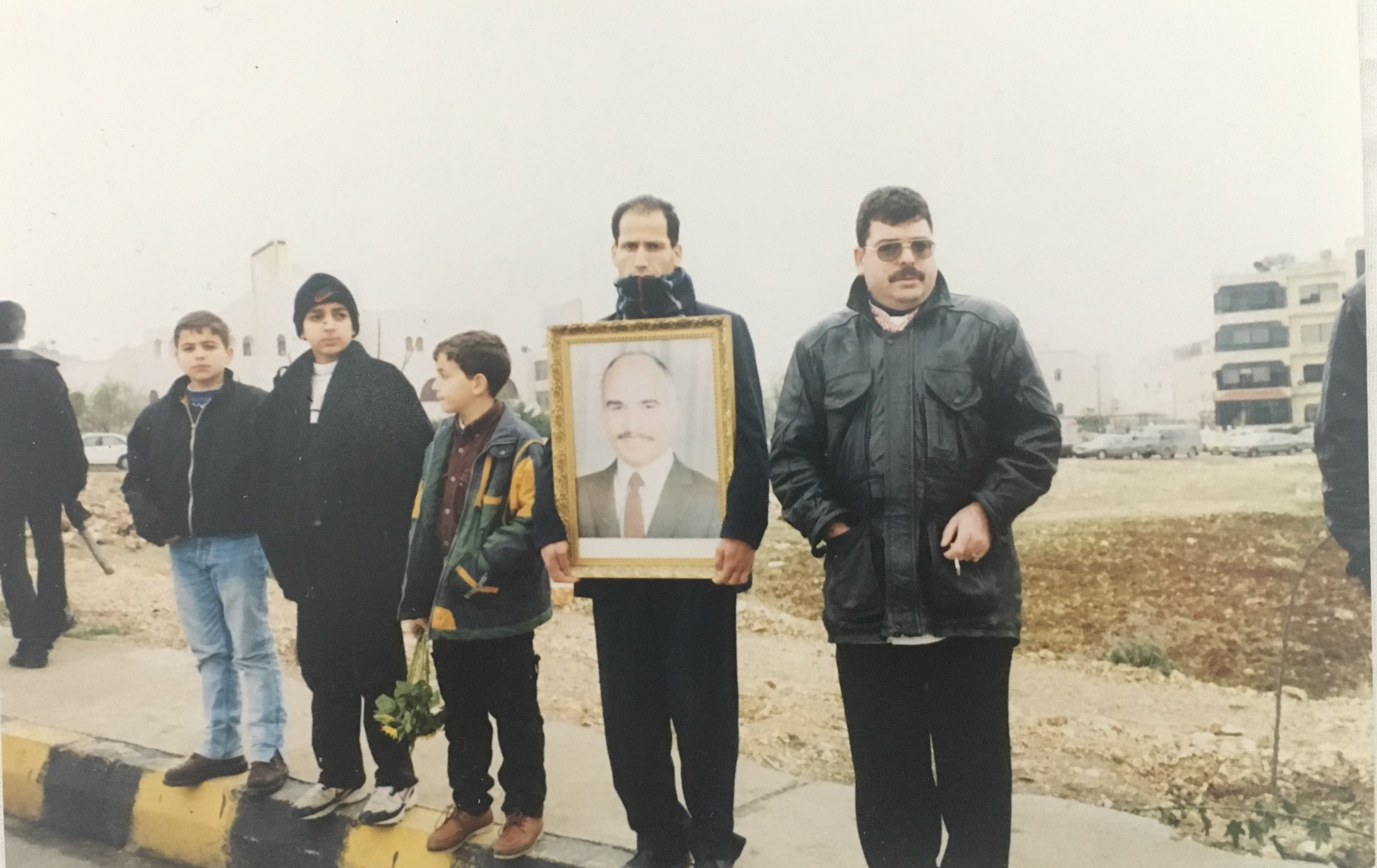 Mourners hold up portrait